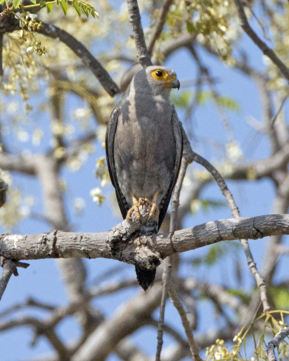 Dickinson's Kestrel White-rumped Kestrel Falco dickinsoni Liwonde, Malawi CF2P1039